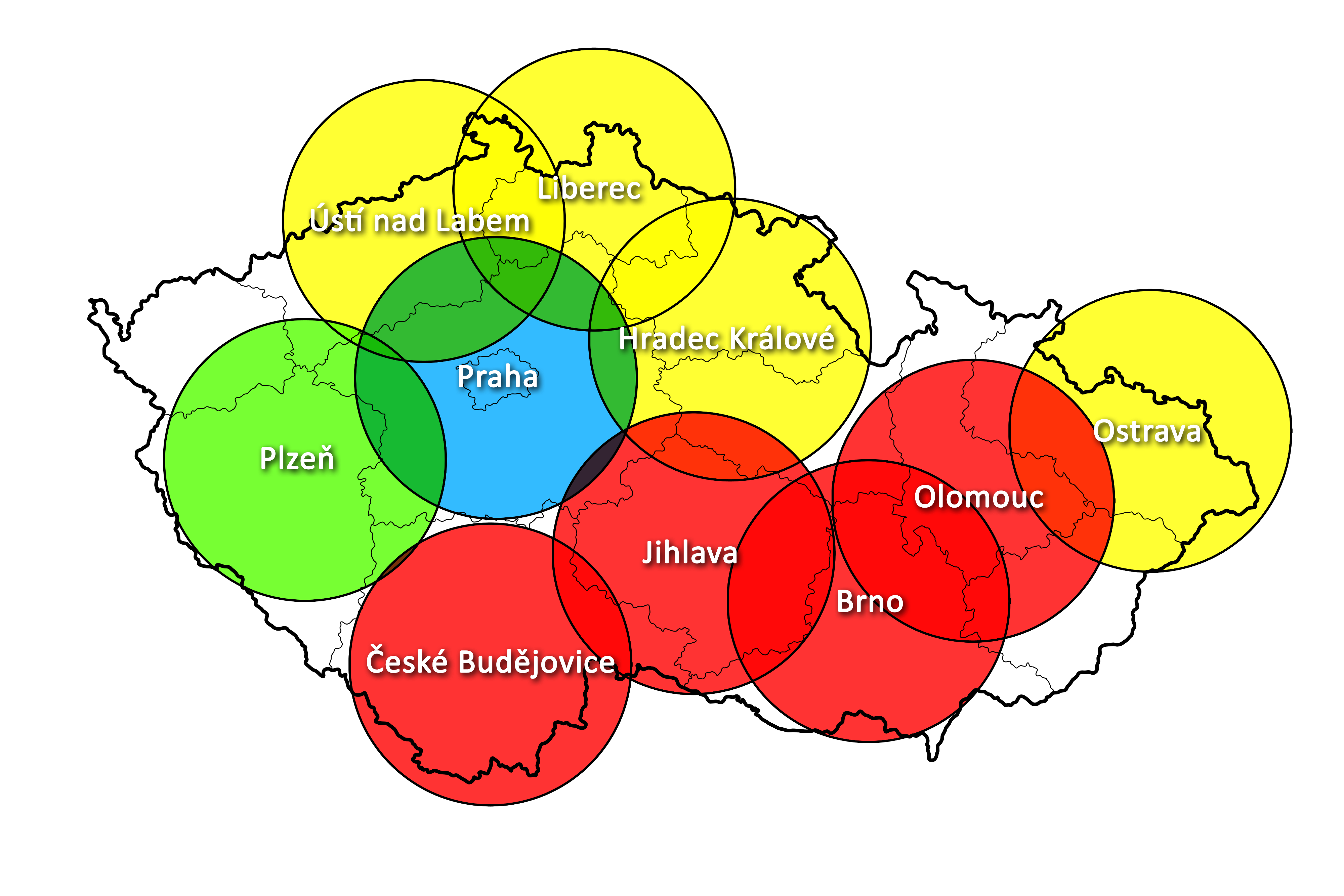 Map of the HEMS bases in the Czech Republic